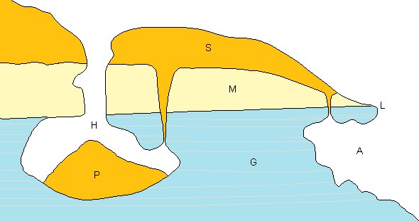 Henkeput, near Rijckholt, Limburg the Netherlands